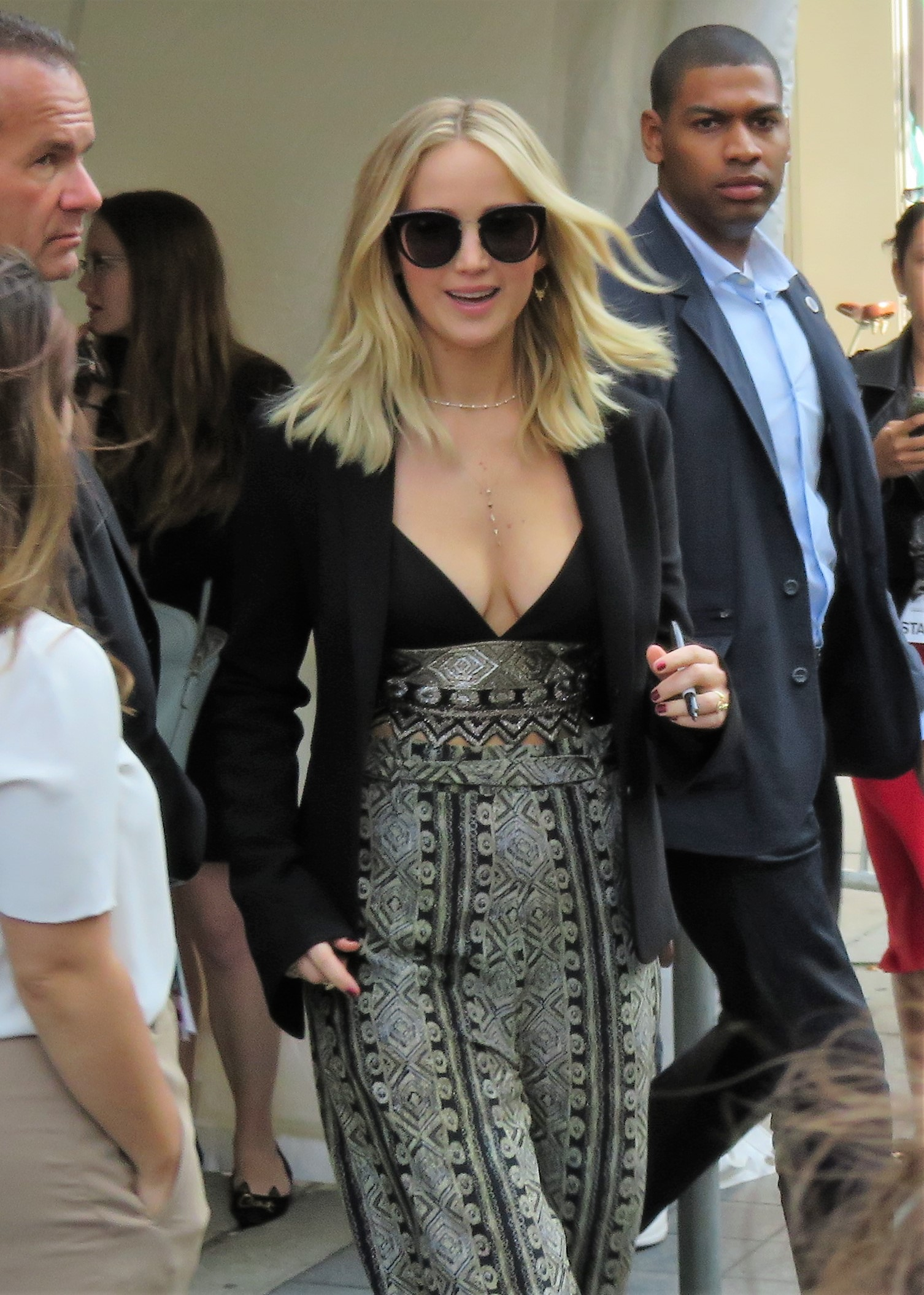 Jennifer Lawrence at the press conference of Mother!, 2017 Toronto Film Festival